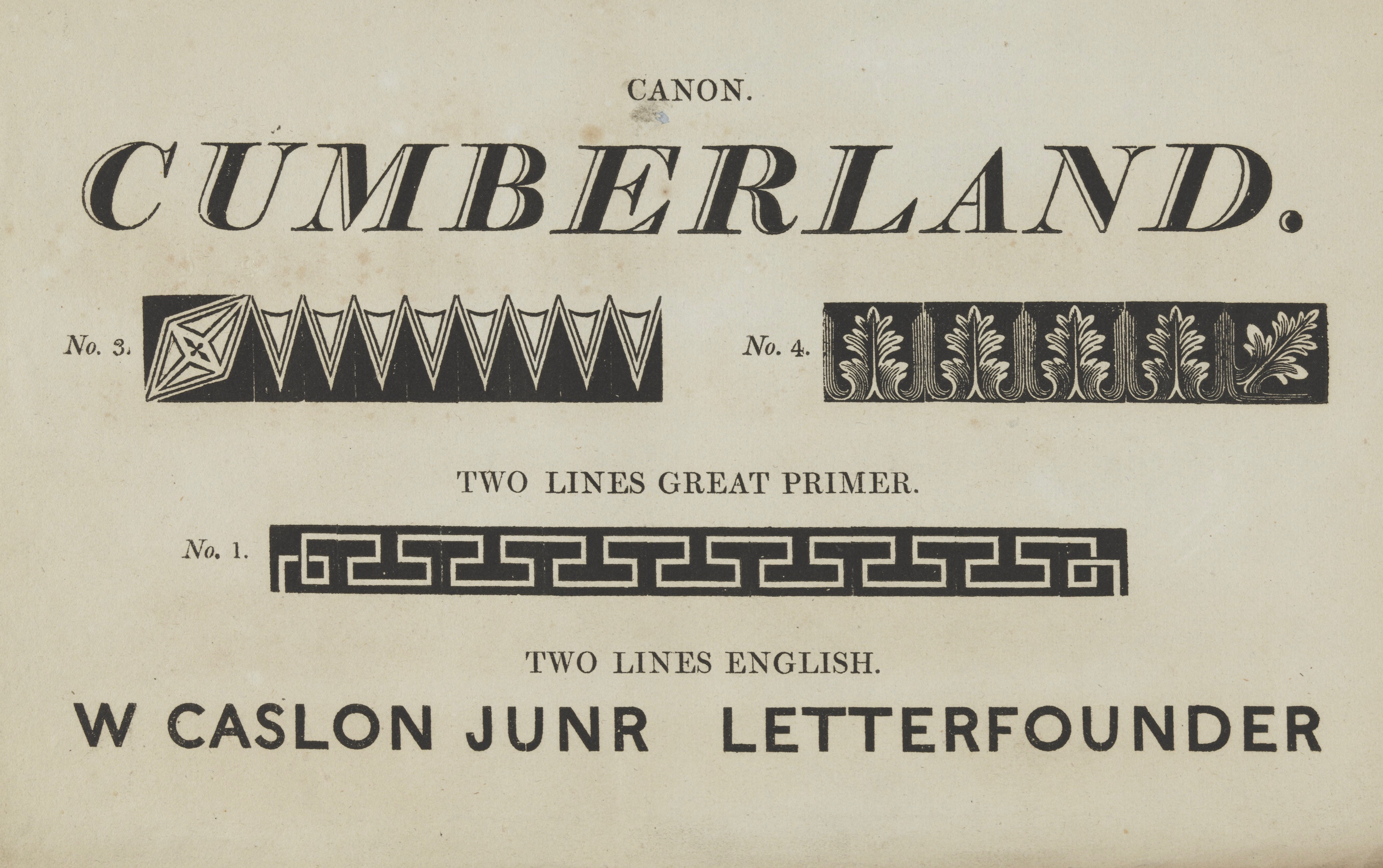 Specimen by William Caslon IV showing the Two Lines English Egyptian sans-serif, the first "sans-serif" printing type ever, from a specimen in the collection of Columbia University. Undated but probably 1816 and likely earlier.